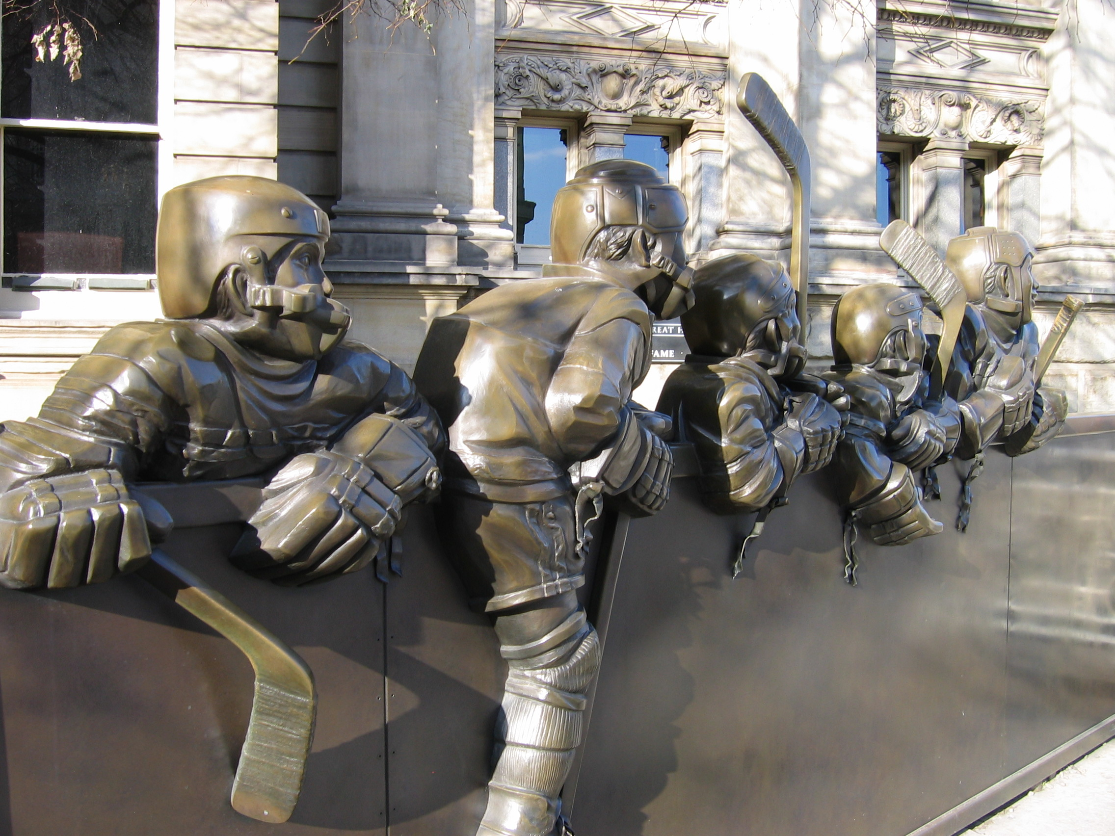 "Our Game" (1993) by Edie Parker, sculpture outside the Hockey Hall of Fame building in Toronto/Canada